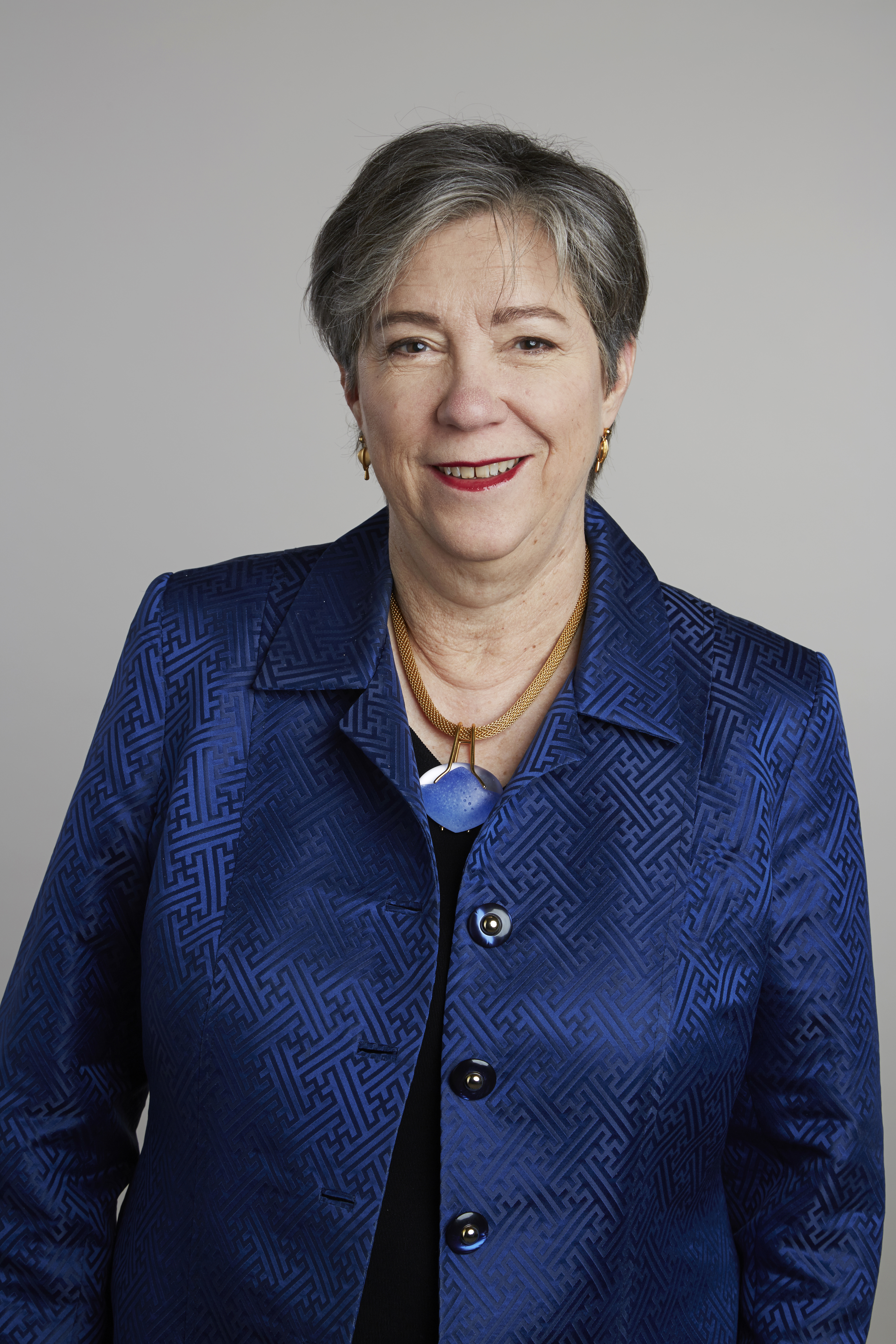 Susan Lindquist has transformed our understanding of how protein folding shapes biological systems. She has made ground-breaking contributions in genetics, cell biology and biochemistry, using organisms as diverse as fungi, fruit flies, mustard plants, and mammals. She discovered the functions of heat-shock proteins, identified prions as conduits of protein-based inheritance, and pioneered new platforms for neurodegenerative disease. She established the key role of the heat-shock proteins in tumor progression and the evolution of fungal drug resistance. She discovered that protein-folding buffers and releases genetic variation in response to environmental stress, providing the first plausible explanation for rapid bursts of evolution. Attribution: The Royal Society